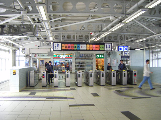 MTR Fo Tan Station Northern Concourse